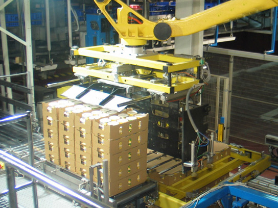 Robot Grapping System